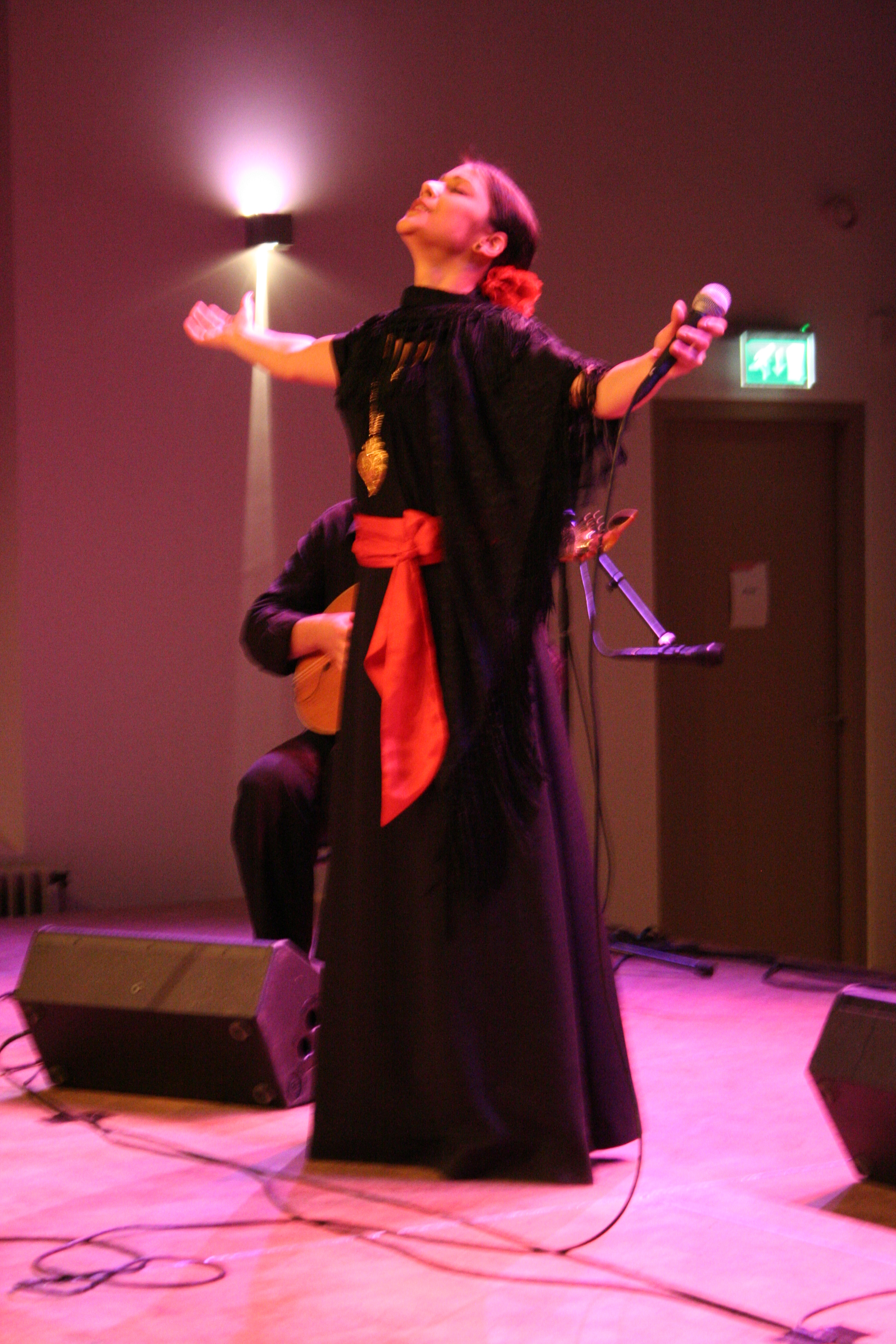 Raquel Tavares performing in Utrecht, Vredenburg